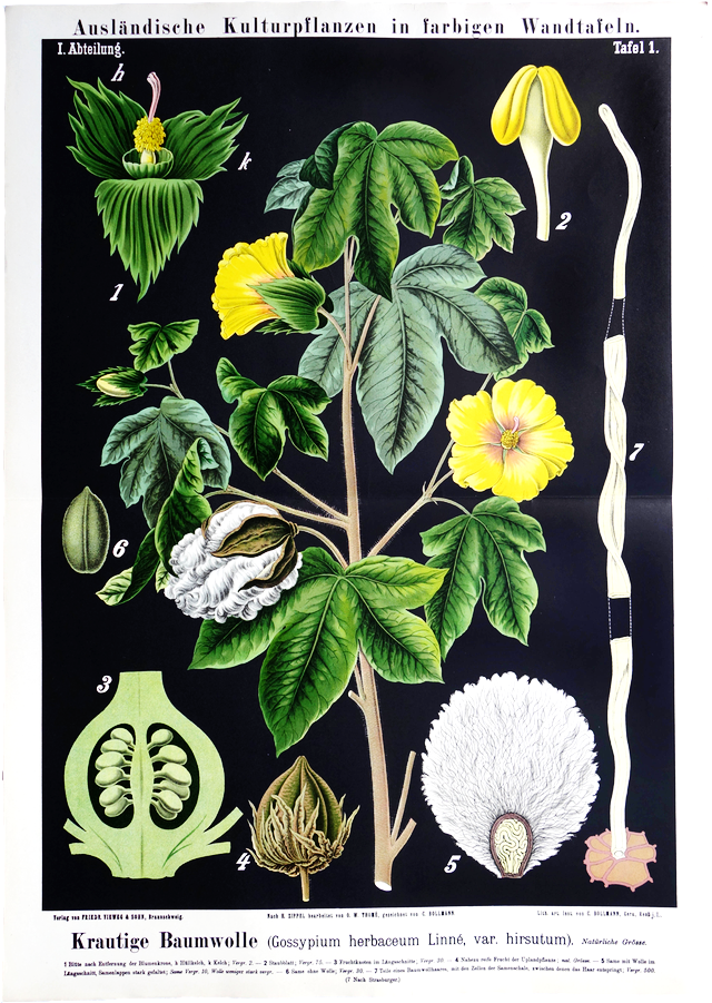 Plate 1 in a series of educational botanical wall charts printed by Friedrich Vieweg & Sohn, Braunschweig - Gossypium herbaceum